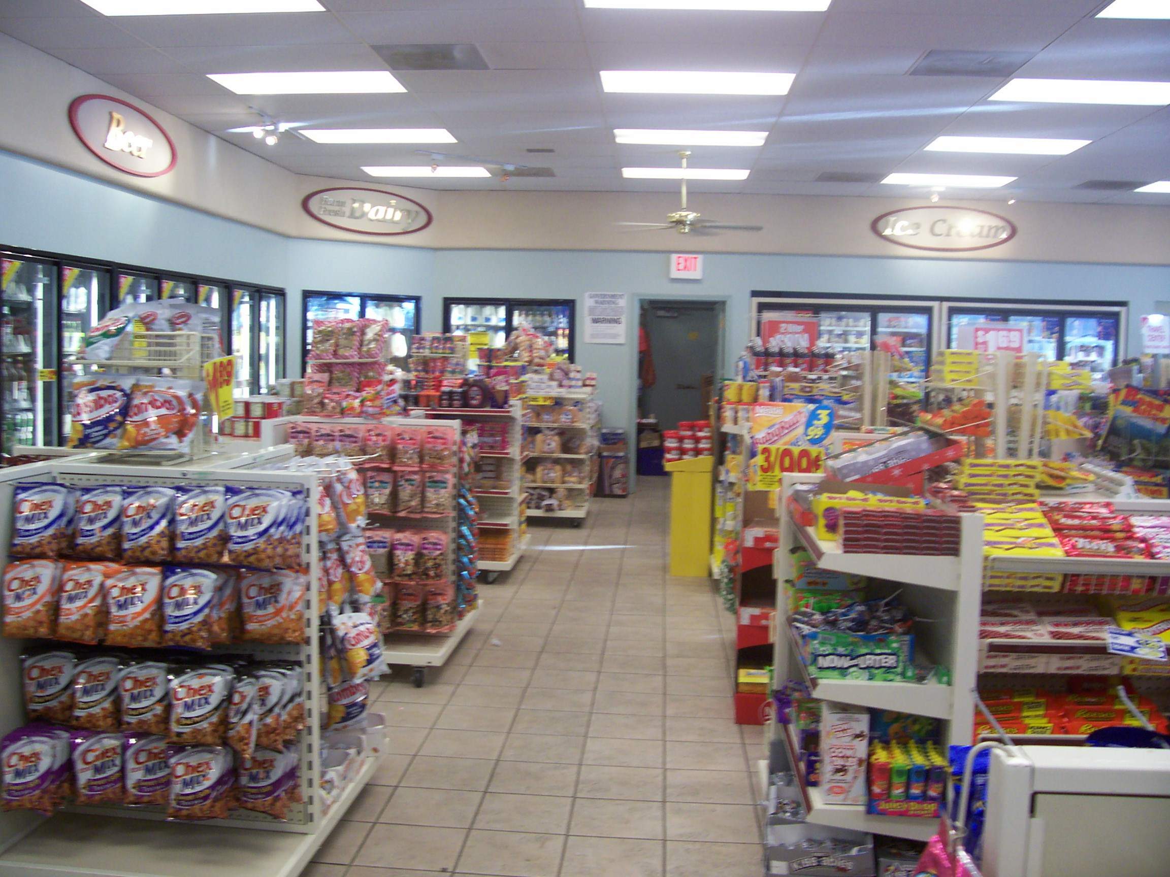 Interior of Cumberland Farms in Poughquag / Hopewell Jct NY